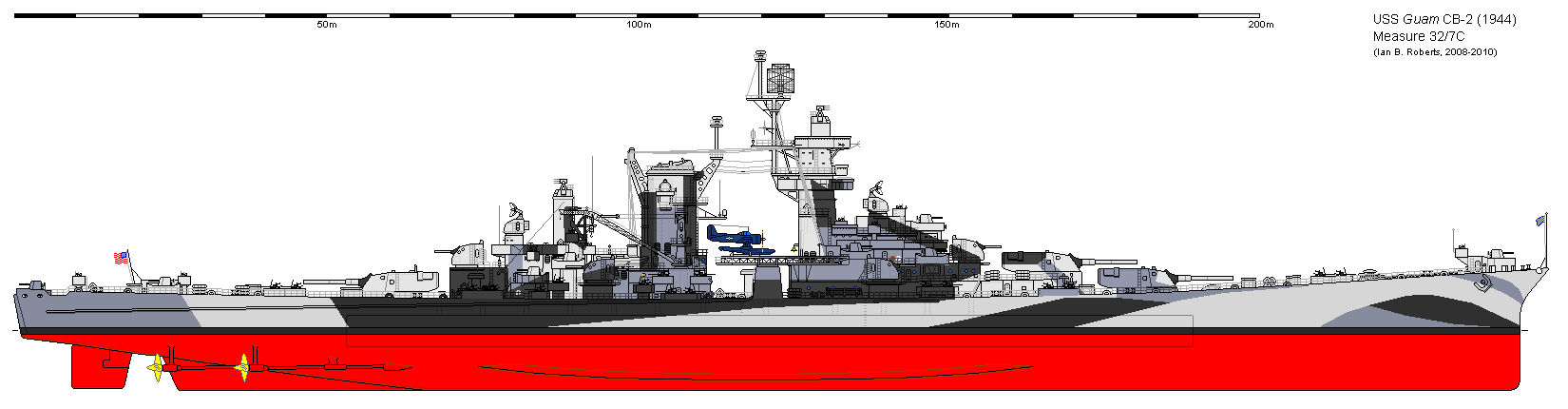 Outboard profile of USS Guam (CB-2) in 1944. Camouflage paint scheme is USN Measure 32/7C. Scale is two pixels to one foot.